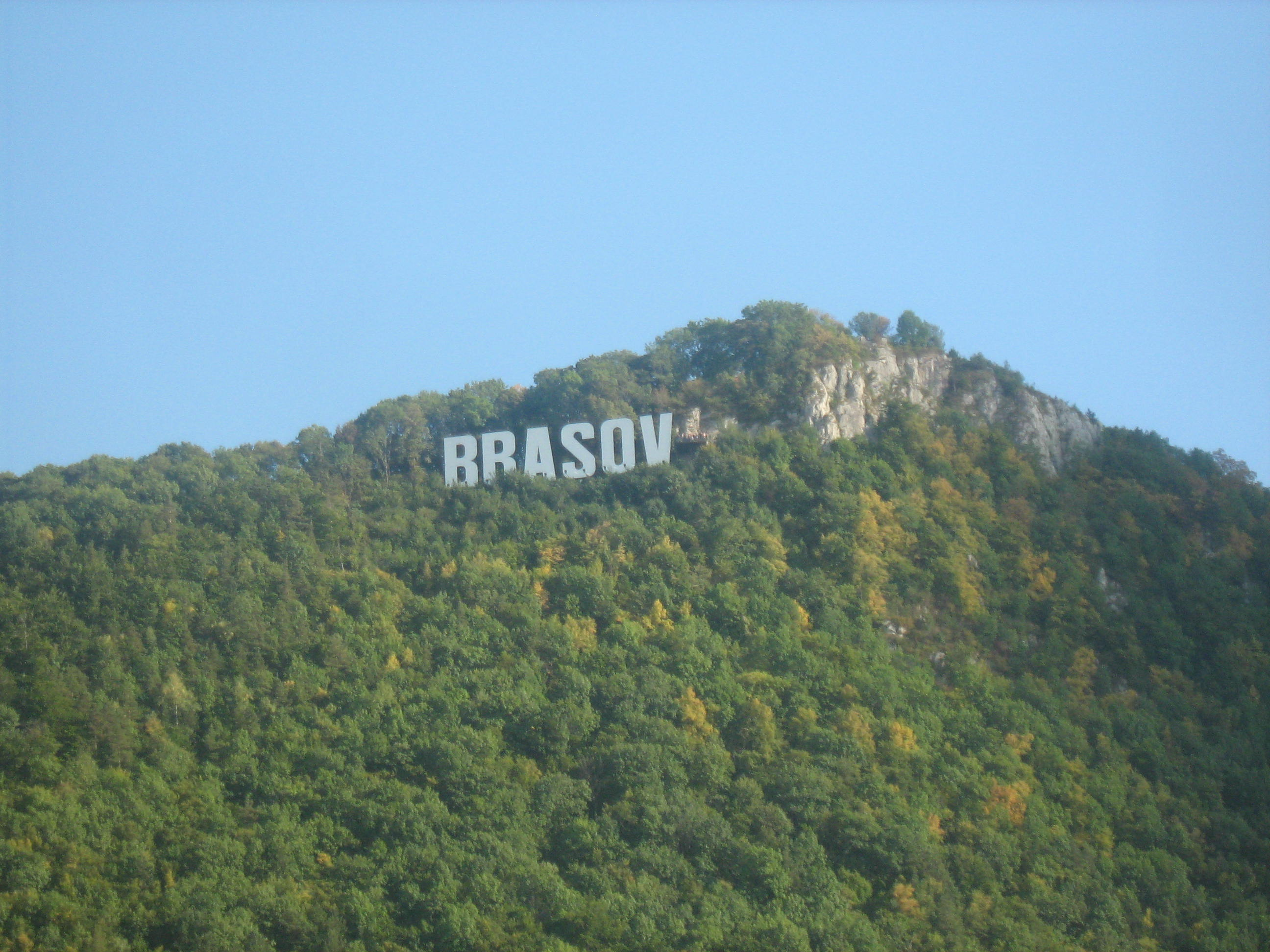 Imitation of the Hollywood sign in Brașov located at 45.63476 N, 25.59589 E